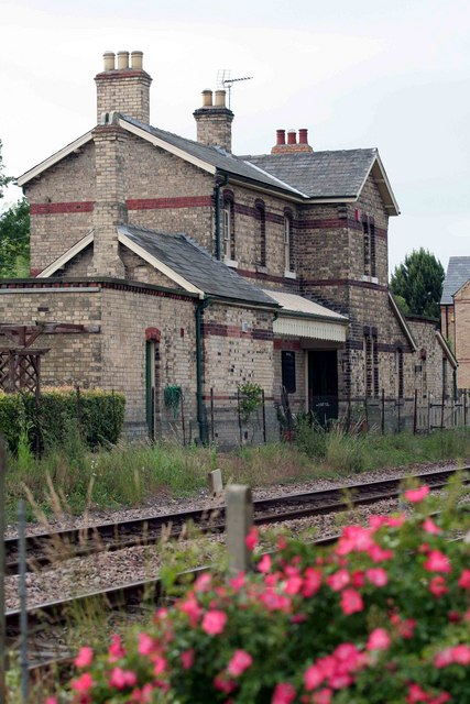 Former Station buildings Shut many years ago the station house looks very attractive with clean brickwork and plenty of chimneys too.